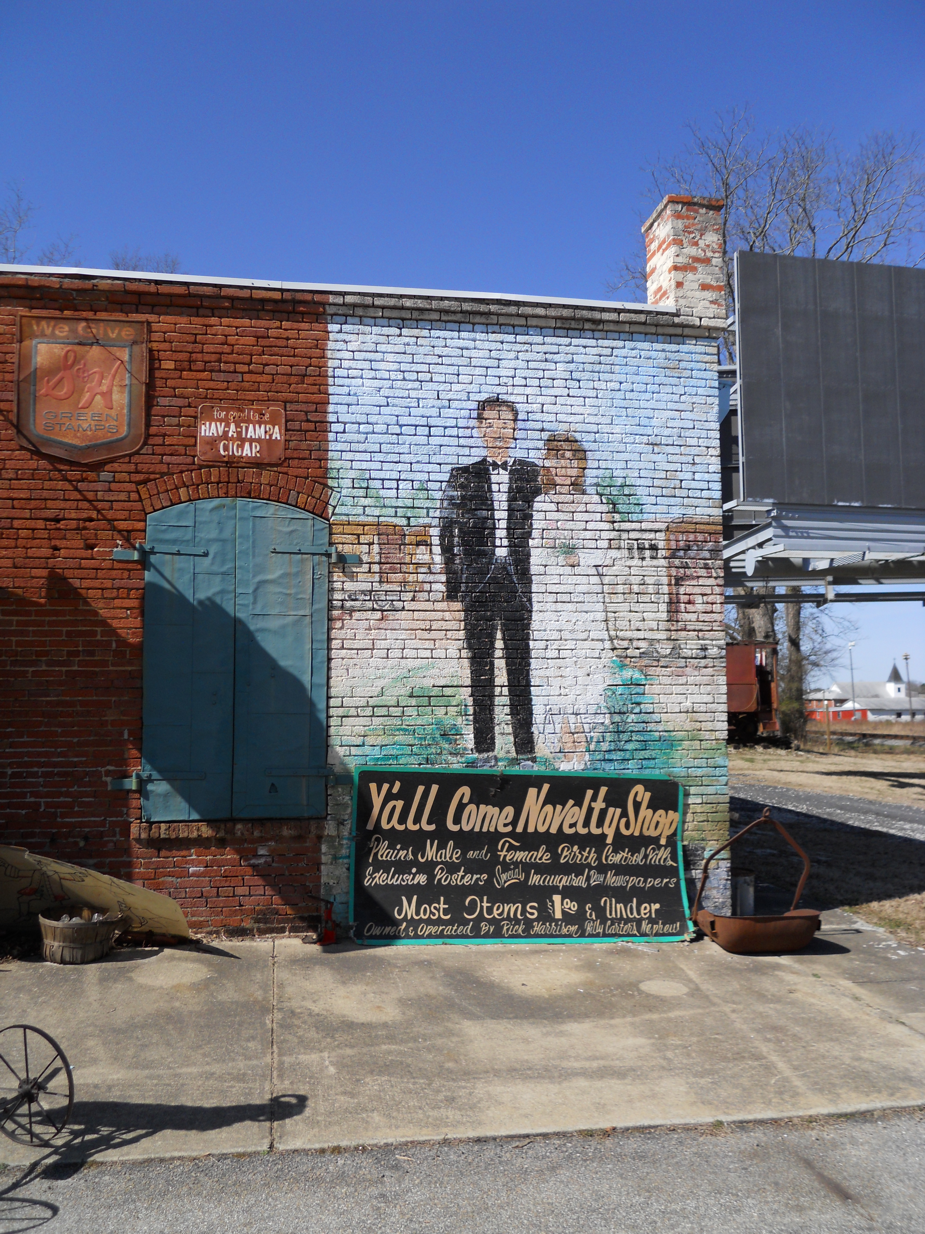 This is a picture of the business district of Salem, Alabama.